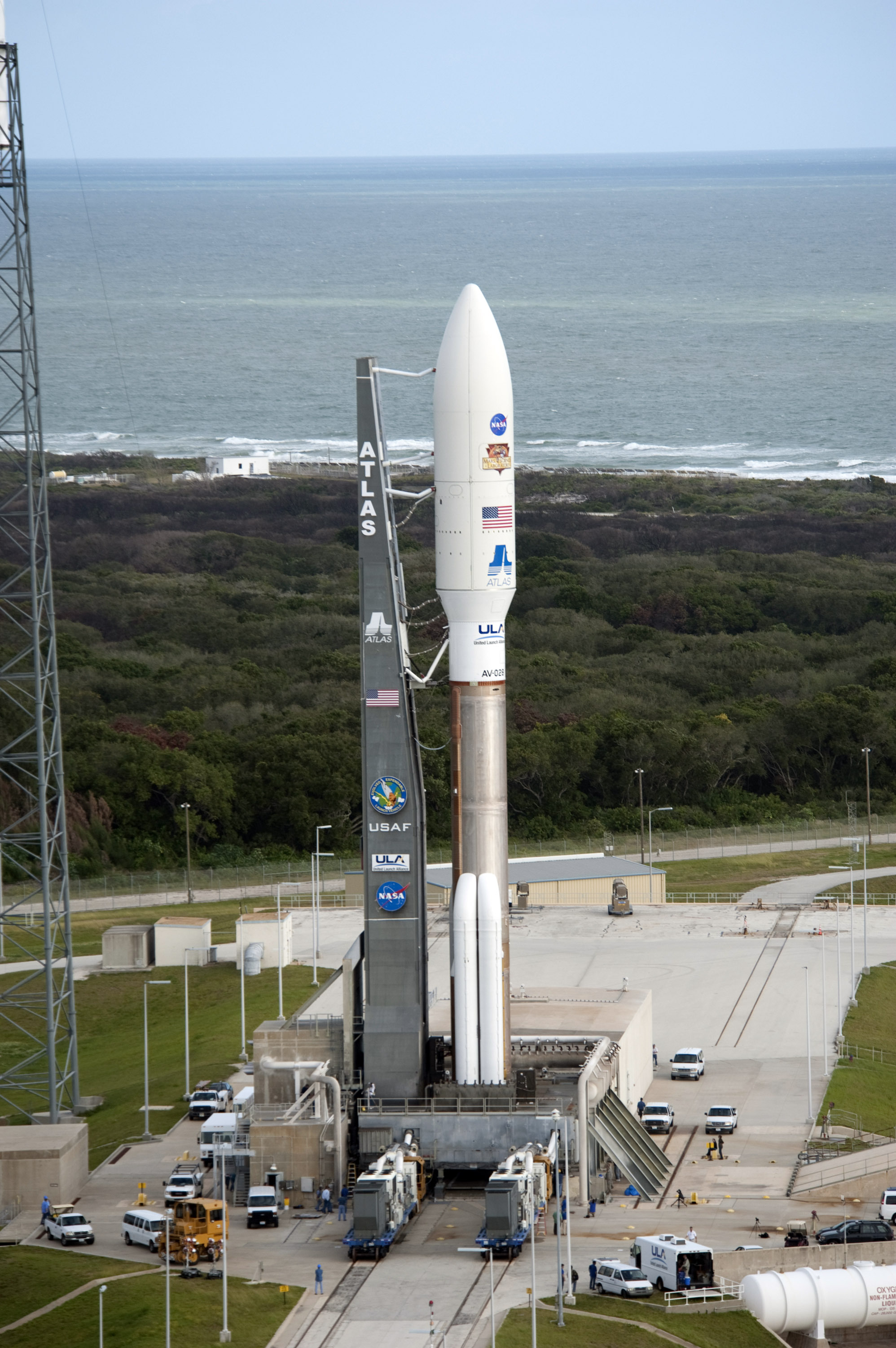 Atlas V Stands Tall On Cape Canaveral Air Force Station in Florida, the 197-foot-tall United Launch Alliance Atlas V rocket arrives on the launch pad at Space Launch Complex-41, situated near the Atlantic Ocean. Atop the rocket is NASA's Mars Science Laboratory (MSL), enclosed in its payload fairing. The rocket began its move from the complex' Vertical Integration Facility at 8 a.m. EST. Liftoff is planned during a launch window which extends from 10:02 a.m. to 11:45 a.m. EST on Nov. 26. MSL's components include a car-sized rover, Curiosity, which has 10 science instruments designed to search for signs of life, including methane, and help determine if the gas is from a biological or geological source.